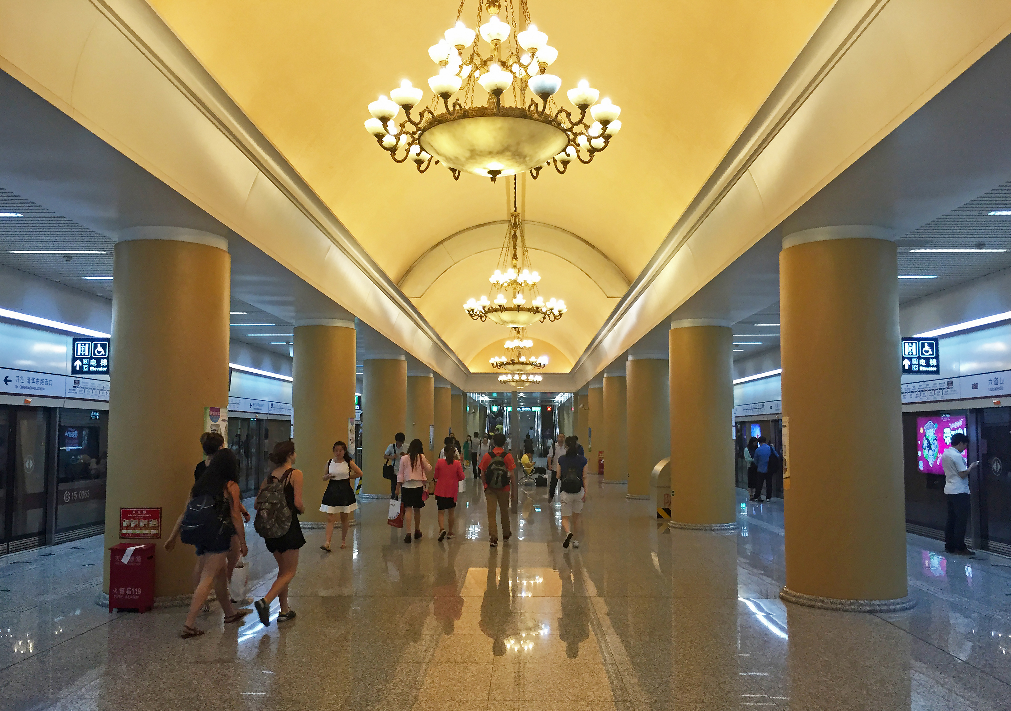 Russkaya Liudaokou... Have I got the wrong place?